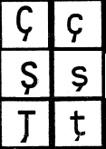 Ç, ç, Ş, ş, Ţ, ţ as illustrated in ISO 8859-2 (ISO-IR 101, 1986). The image is made from parts of a chart arranged differently.